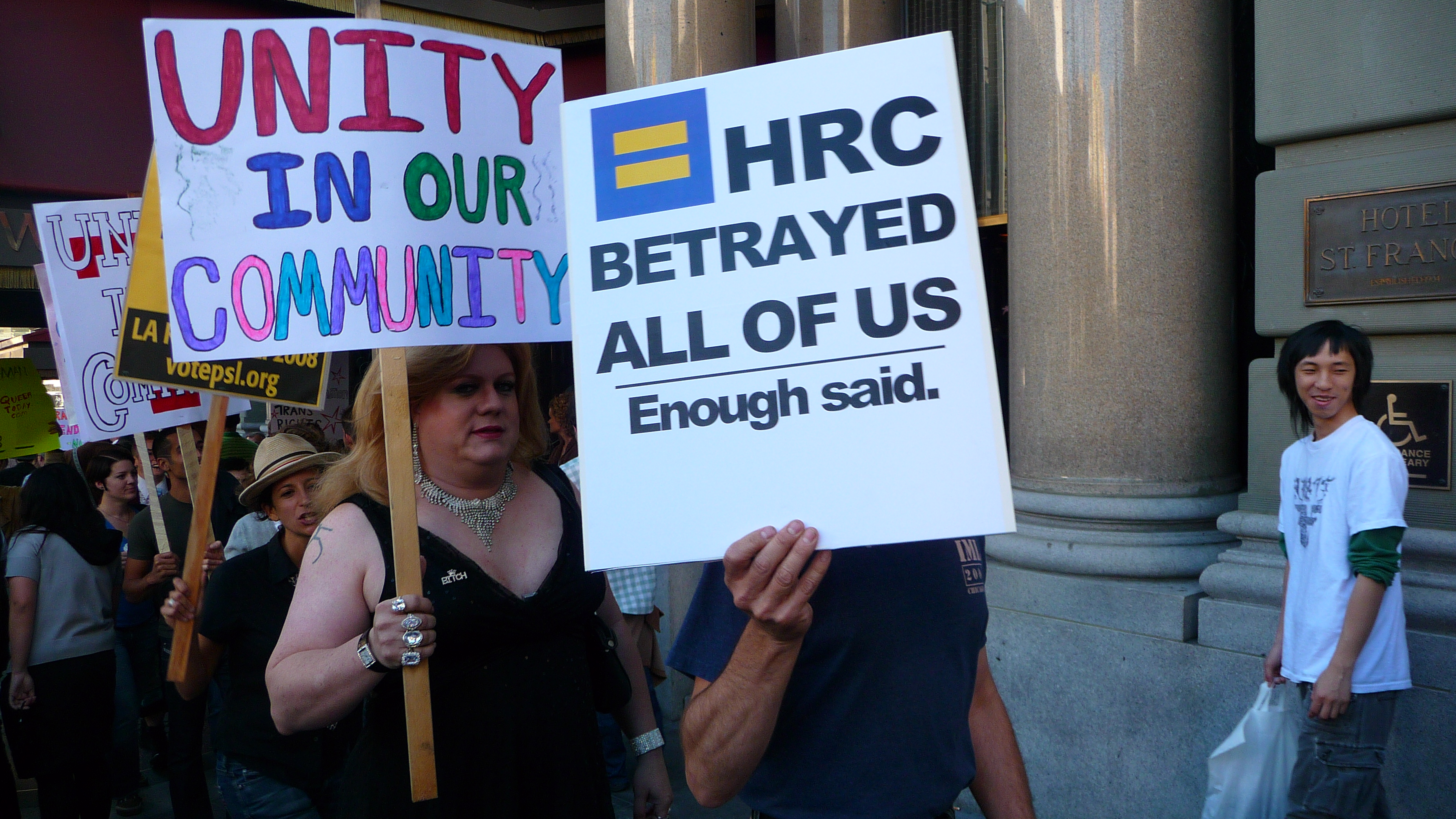 Left OUT Party Two signs which summarize the feelings of the protestors